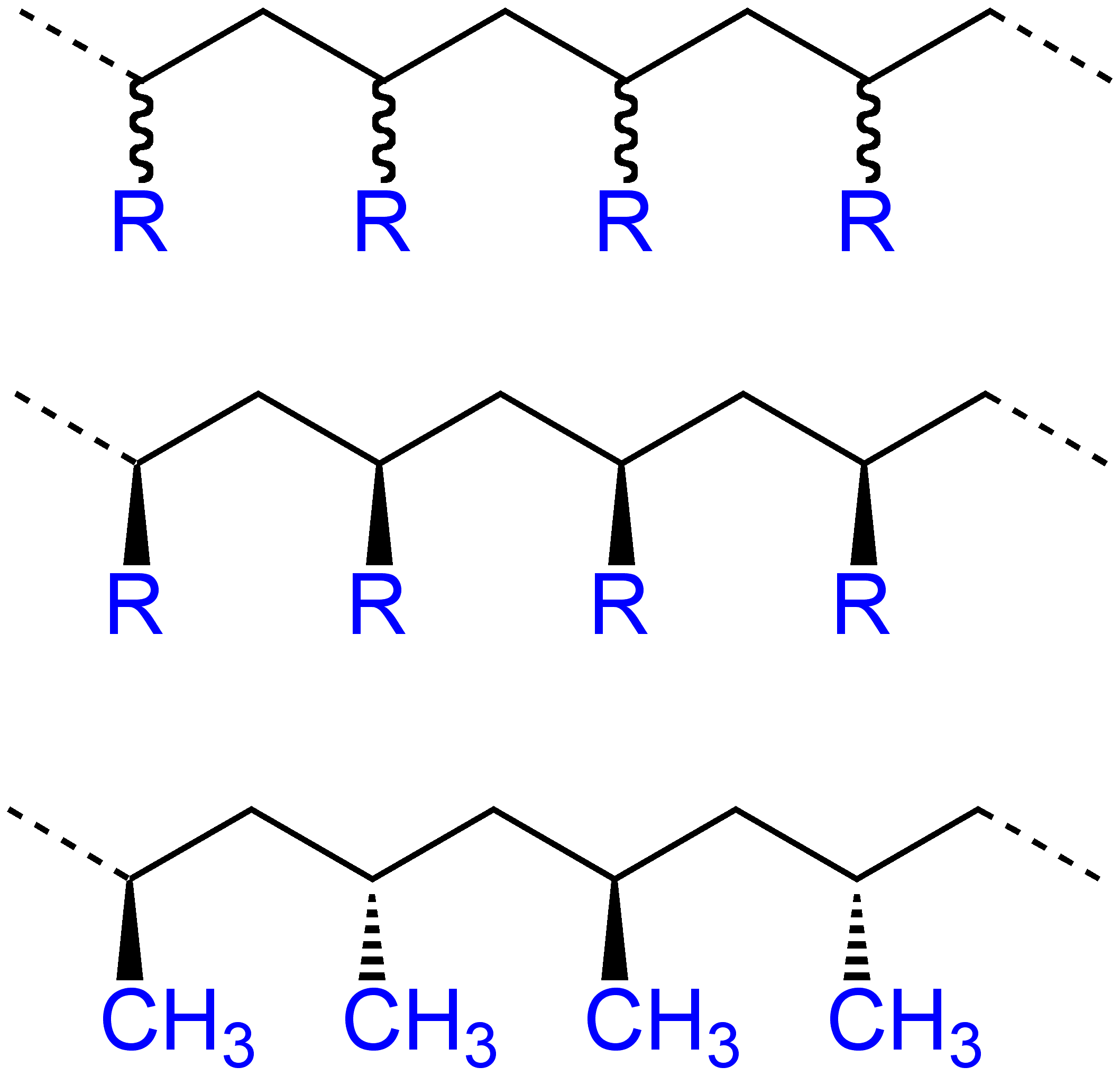 Polymers_Tacticity